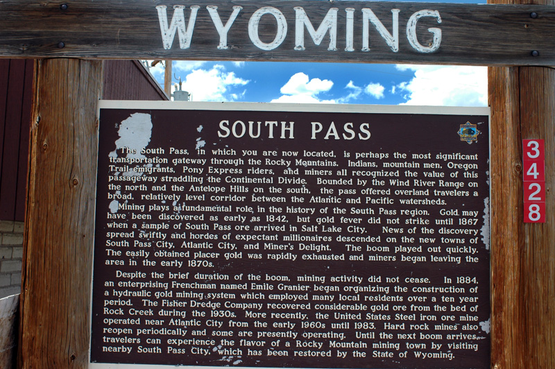 Photo by Mike DeLeonardis (